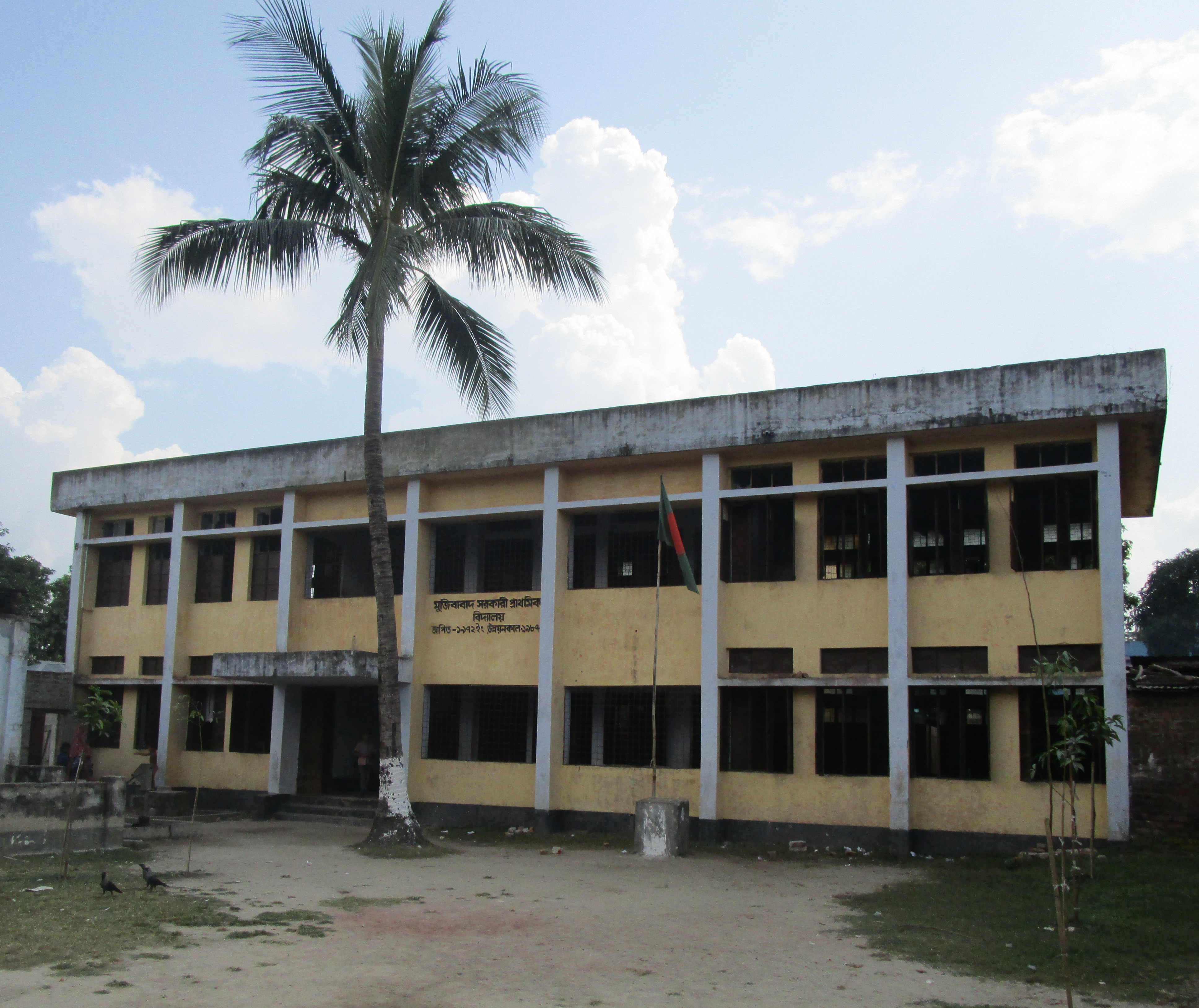 Mujibabad Govt Primary School at Parbatipur Upazila.